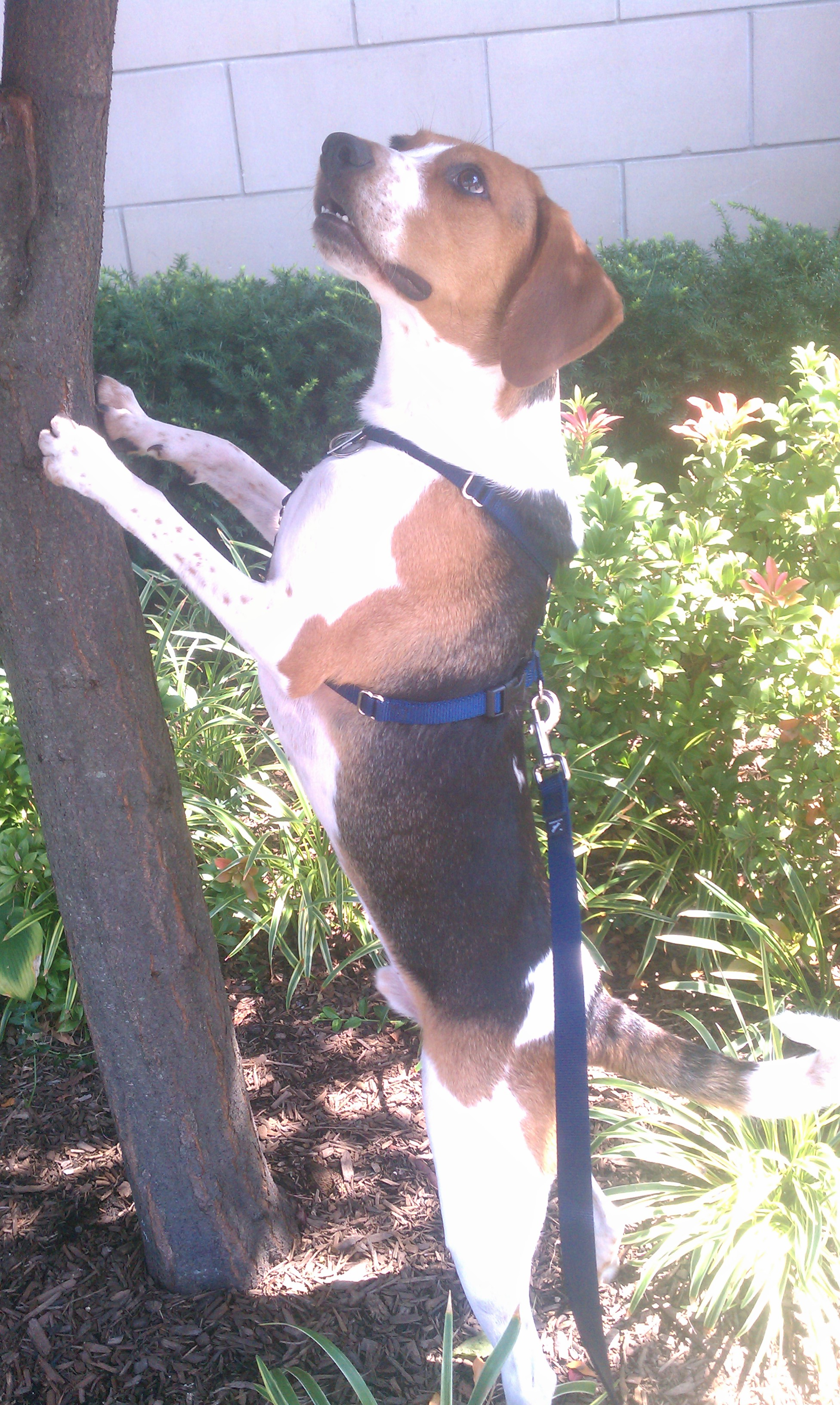 Blackjack, a Treeing Walker Coonhound, "treeing."